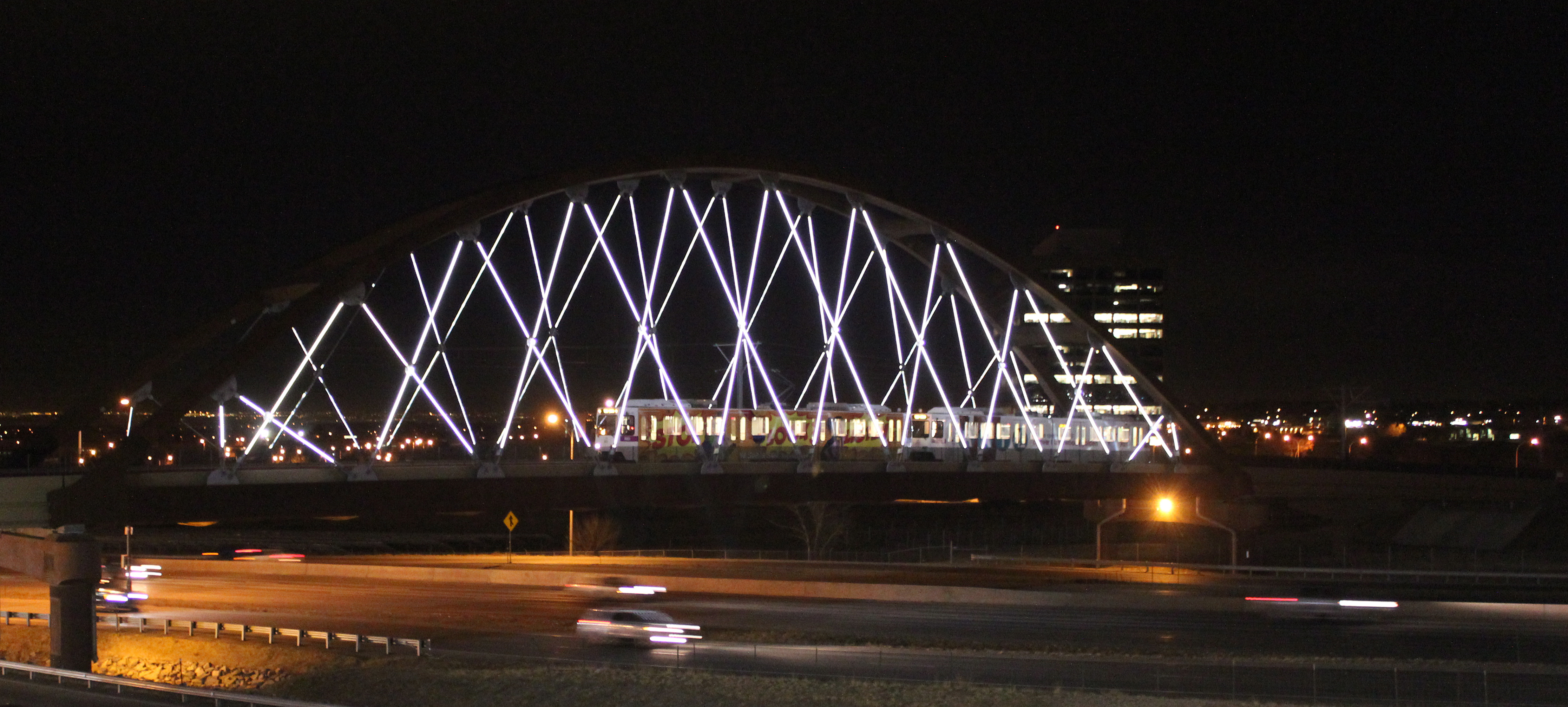 The bridge lighting ceremony on 2013-01-23.